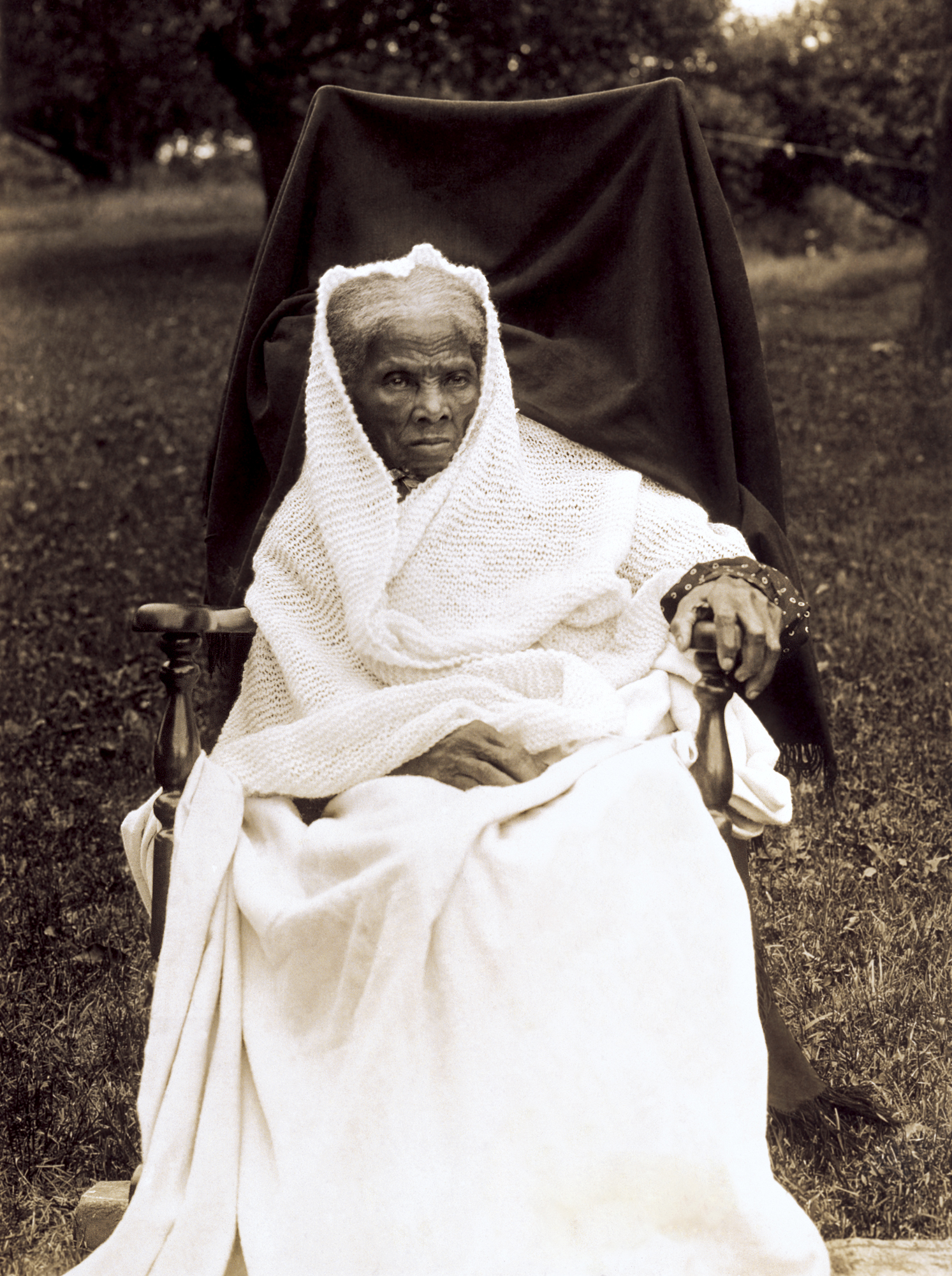 Harriet Tubman, full-length portrait, seated in chair, facing front, probably at her home in Auburn, New York